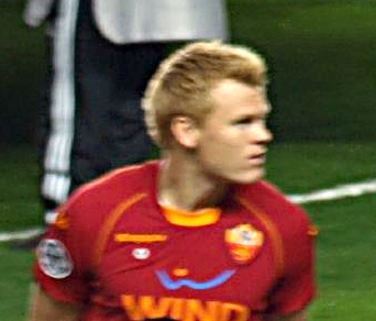 John Arne Riise, Norwegian football (soccer) player